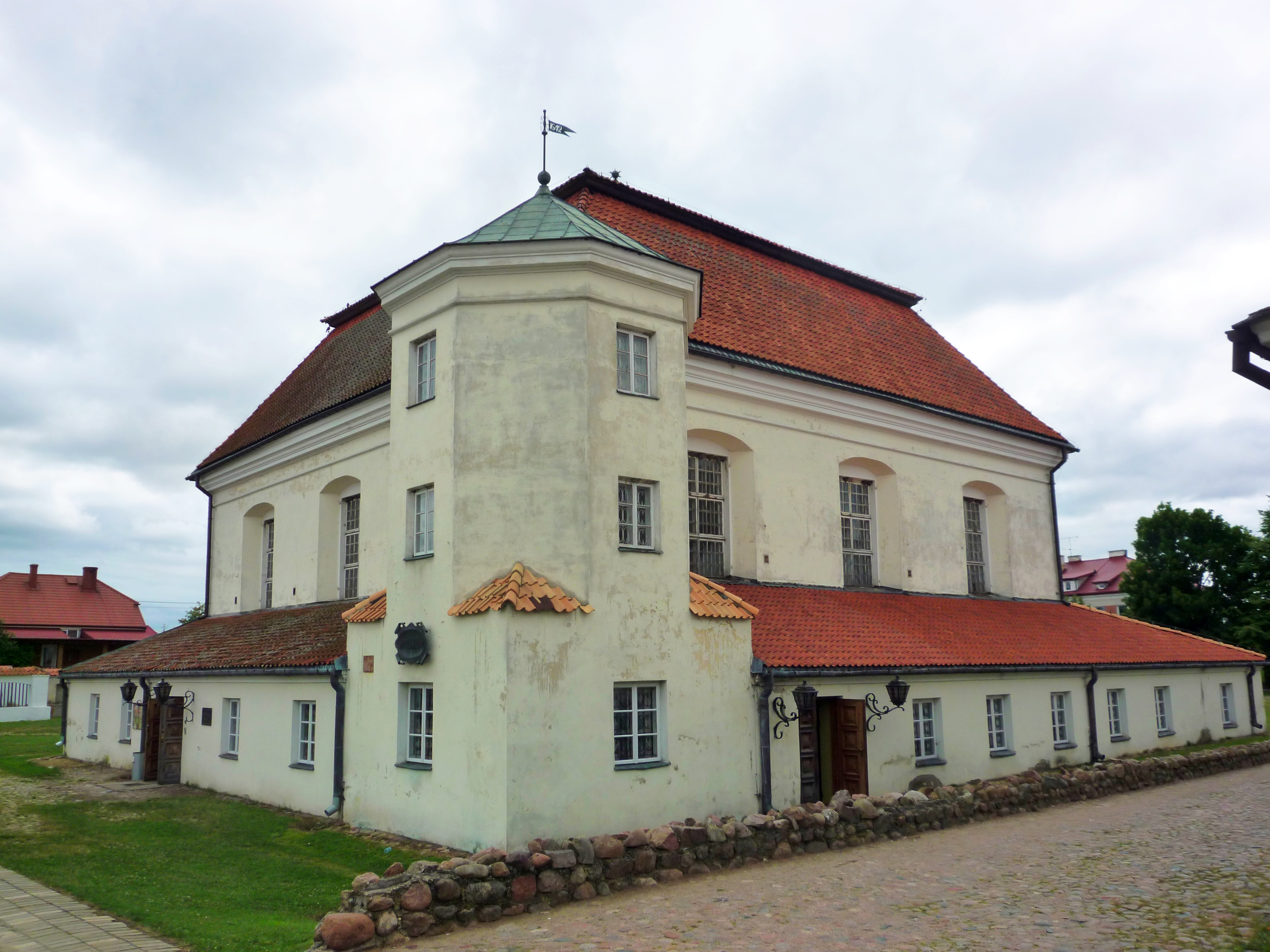 Great Synagogue in Tykocin